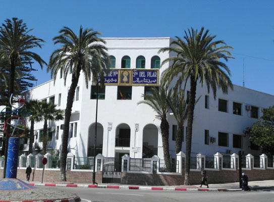 Main entrance of the Instituto Español Nuestra Señora del Pilar